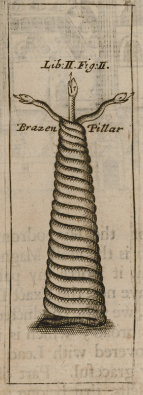 1682 depiction of the Serpent Column at the Hippodrome of Constantinople